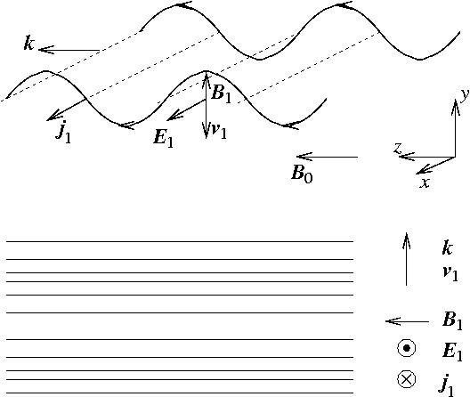 Schematic of magnetohydrodynamic (MHD) wave fields. Top: Alfvén waves, also known as torsional Arlfvén waves or shear Alfvén waves. Bottom: compressional MHD waves, also known as compressional Alfvén waves or magnetosonic waves.